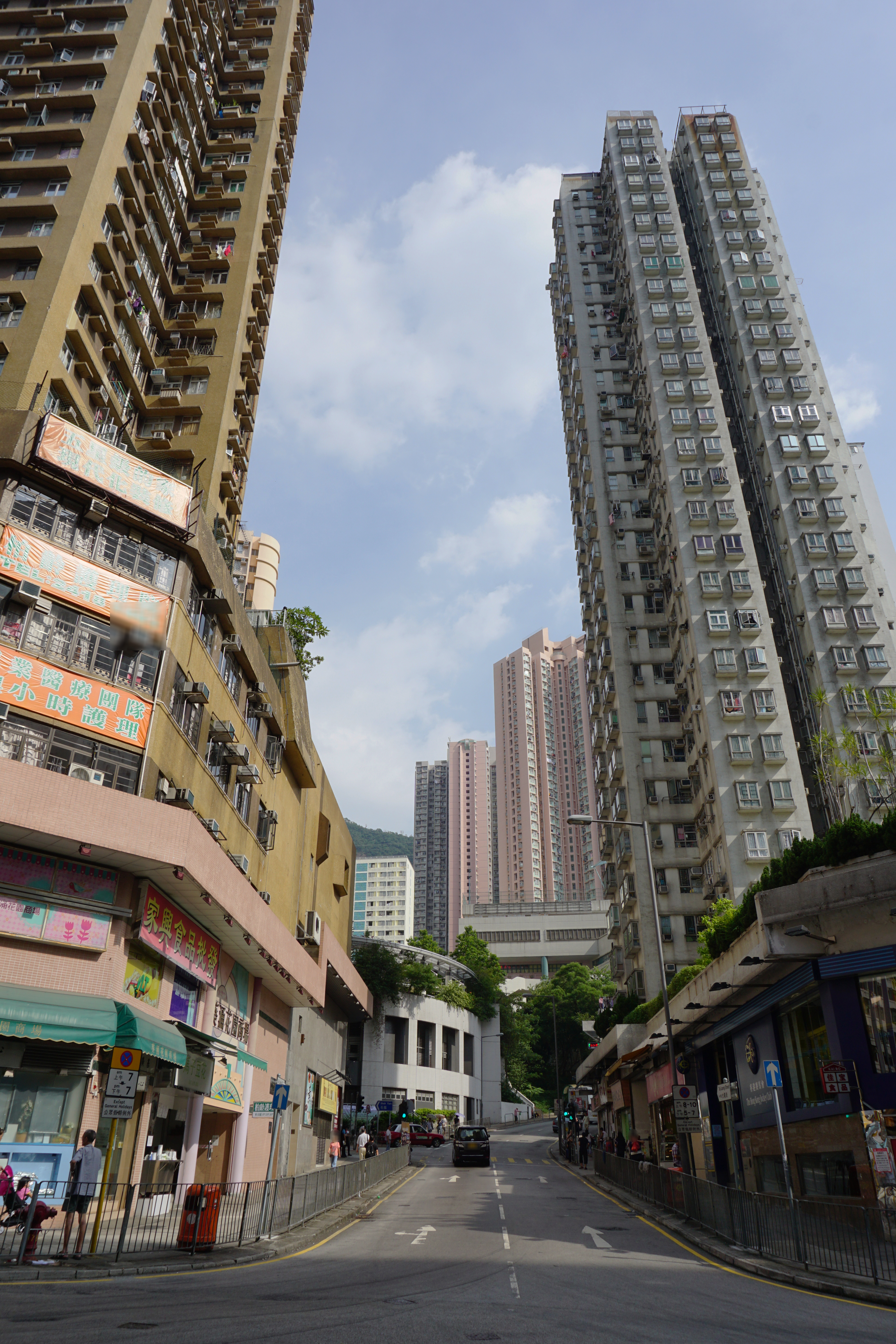 Tai Loong Street in Shek Lei, Hong Kong.